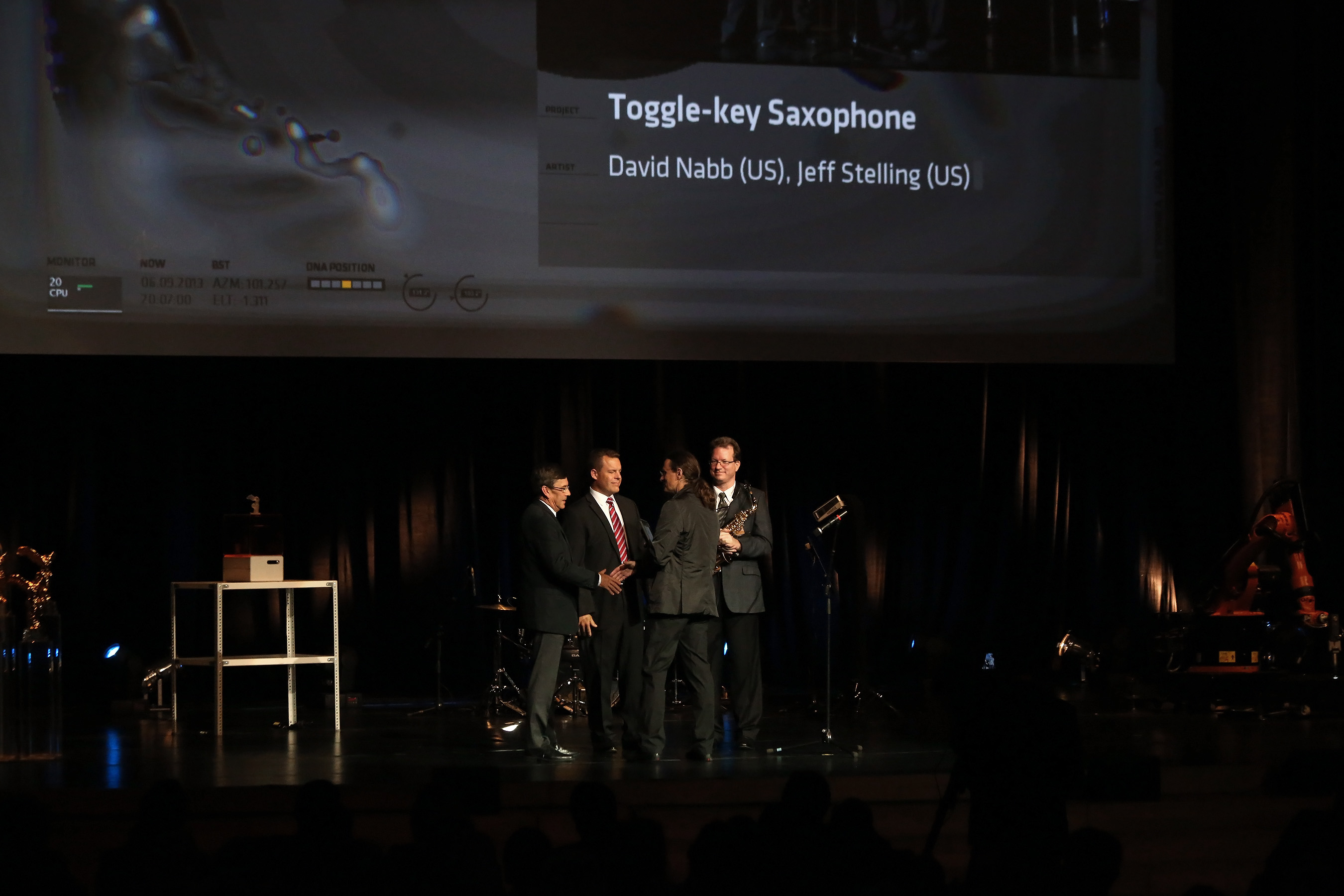 Gerfried Stocker (Ars Electronica) and Stephen Hetherington (OHMI Trust) with the OHMI-Ars Electronica Prize for musician David Nabb and instrument maker Jeff Stelling for the development of the toggle-key saxophone; Prix Ars Electronica 2013 at Brucknerhaus, Linz, Upper Austria.